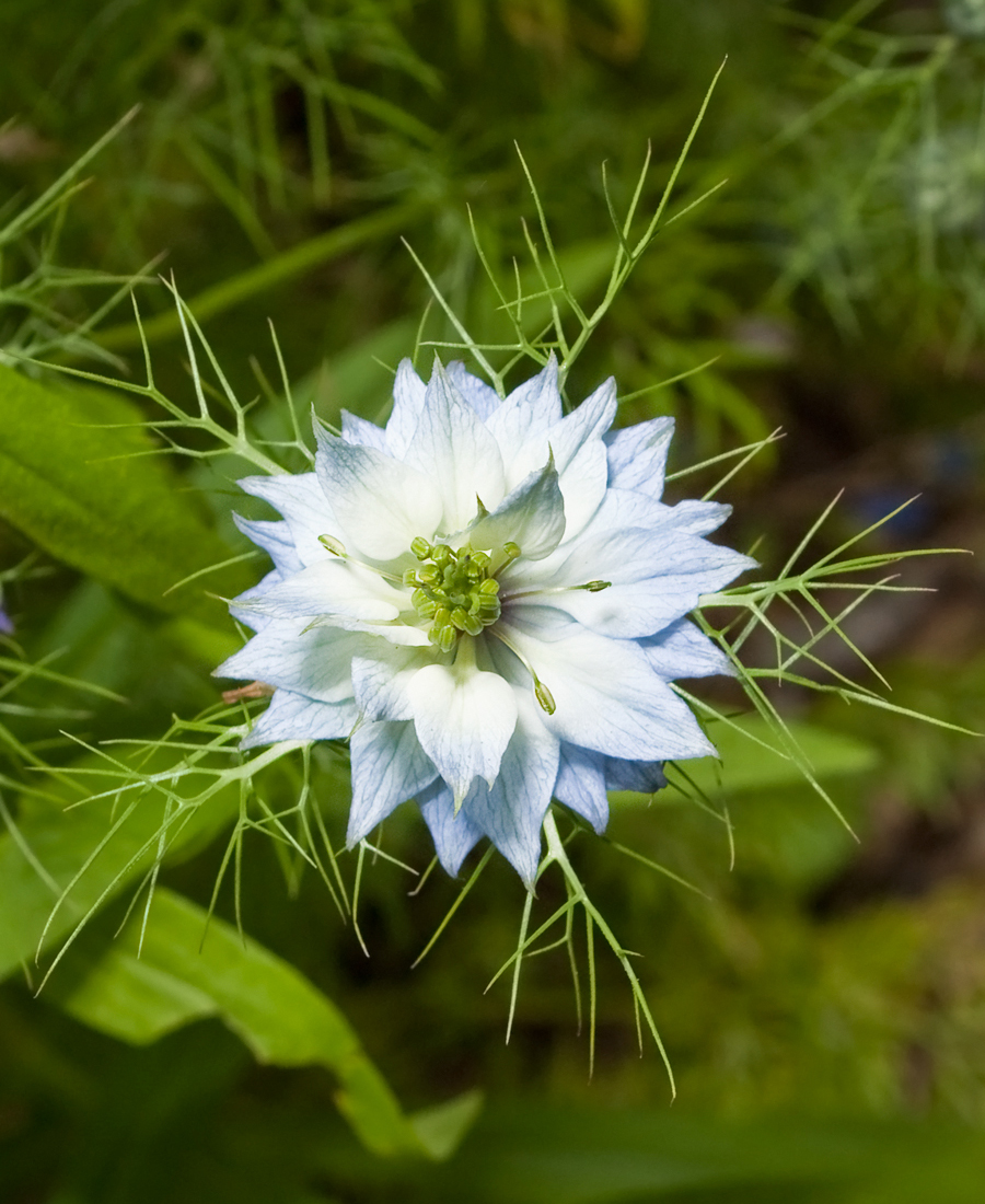 Nigella damascena flower at Cheekwood Botanical Garden in Nashville, Tennessee